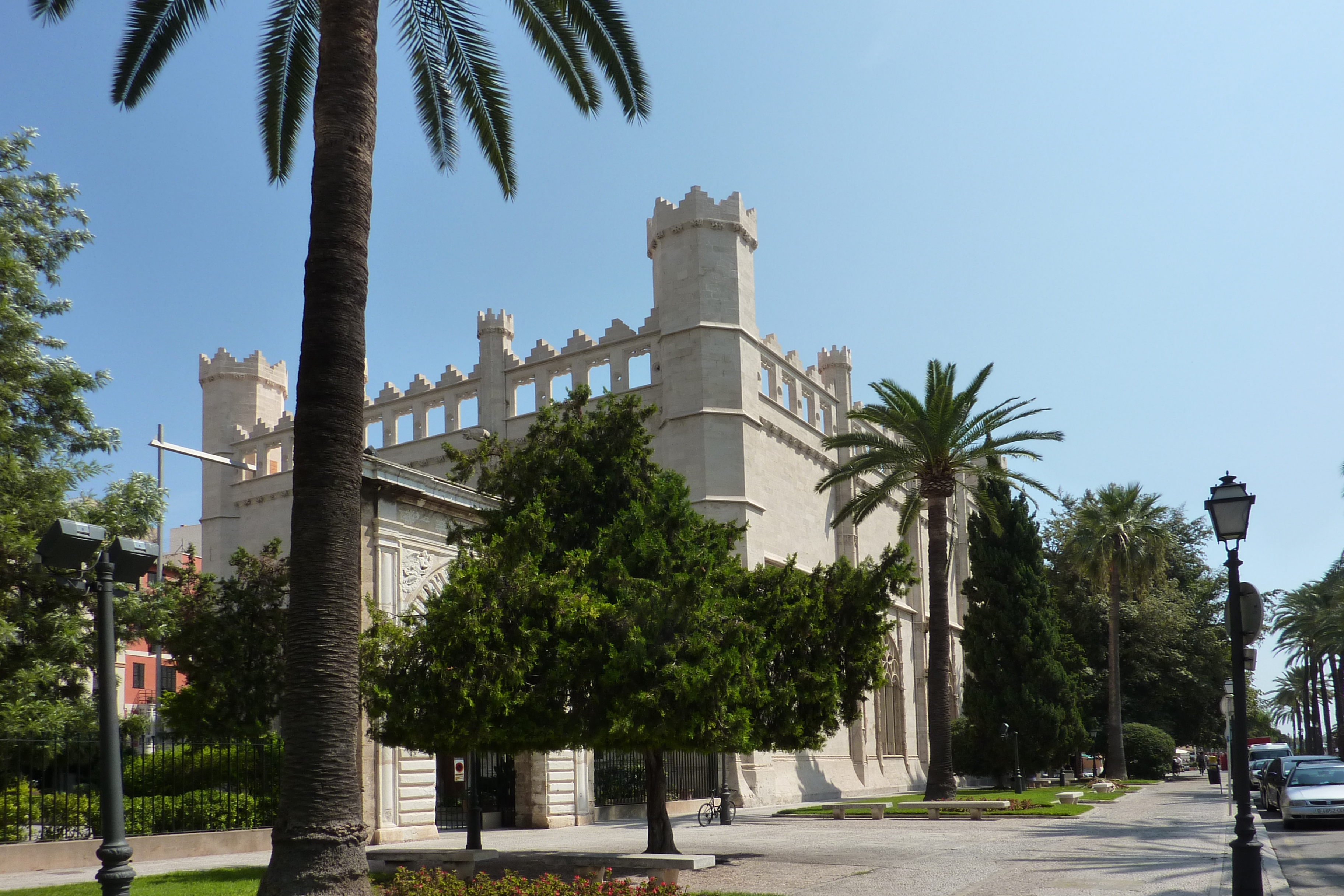 Llotja de Palma